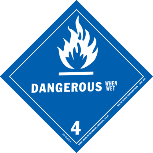 Source: "Emergency Response Guidebook." U.S. Department of Transportation, 2004, pages 16-17.